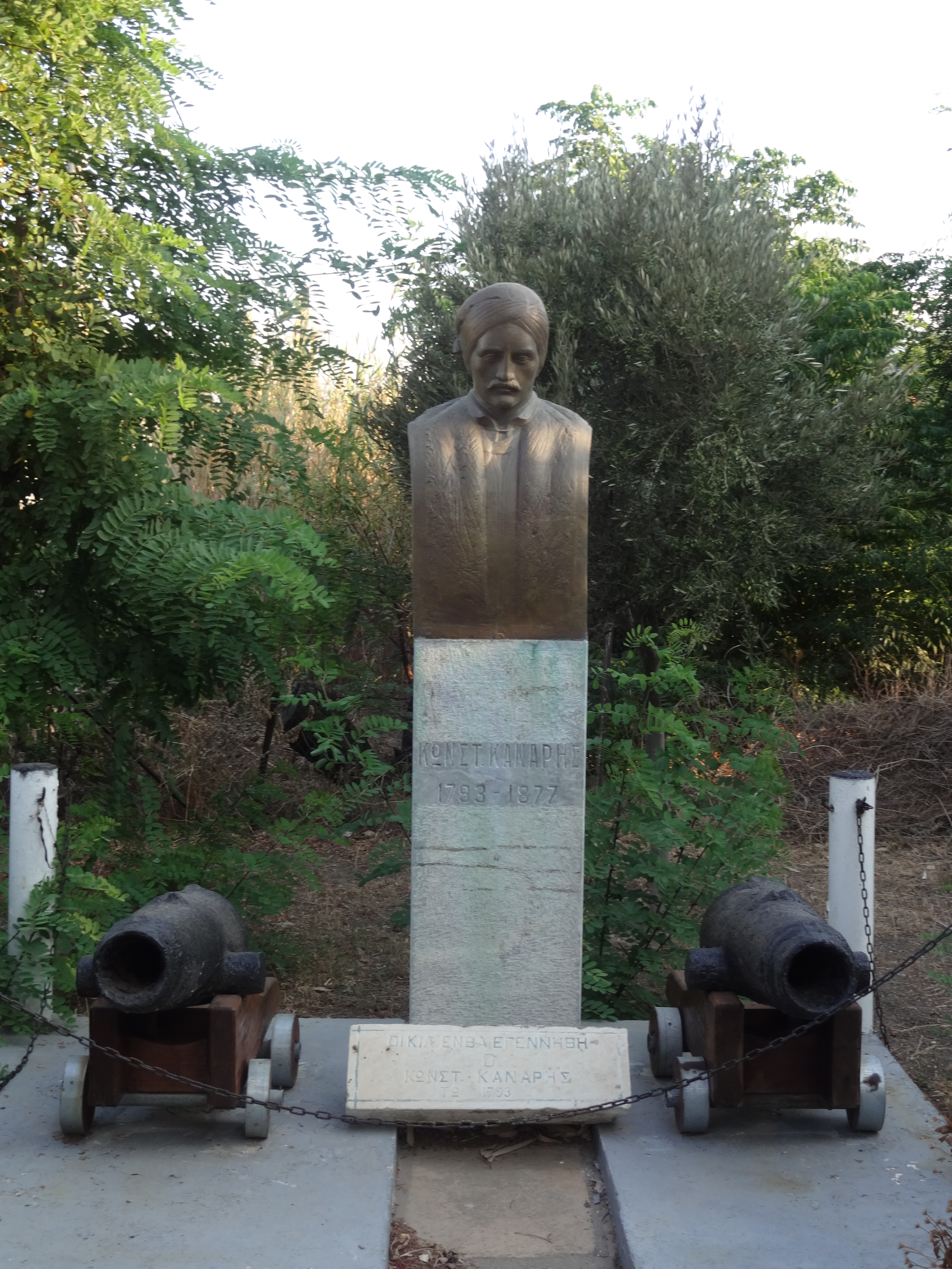 Island of Psara, Greece. Bust of cap. Constantine Kanaris (1790-1877) in the place of his home.